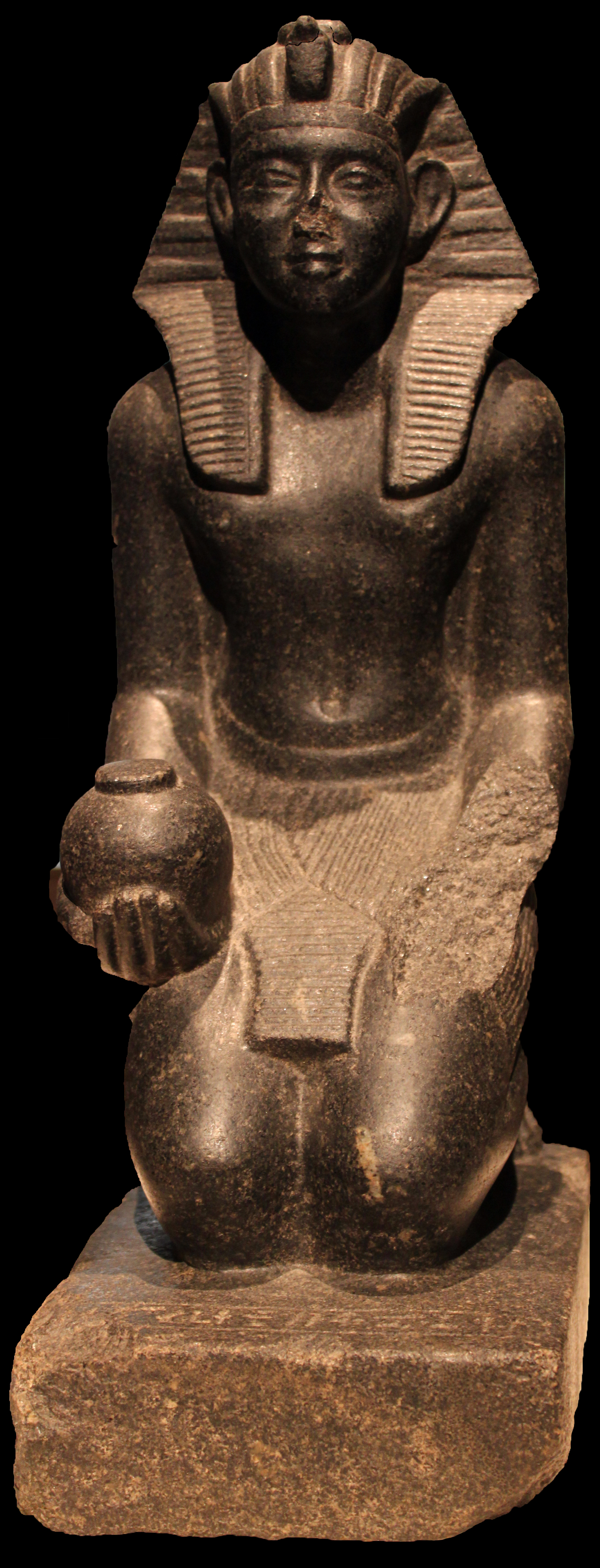 Knneling figure of Sobekhotep V with ointment vessels; ca. 1725 BC; Neues Museum Berlin, Germany; ÄM 10645